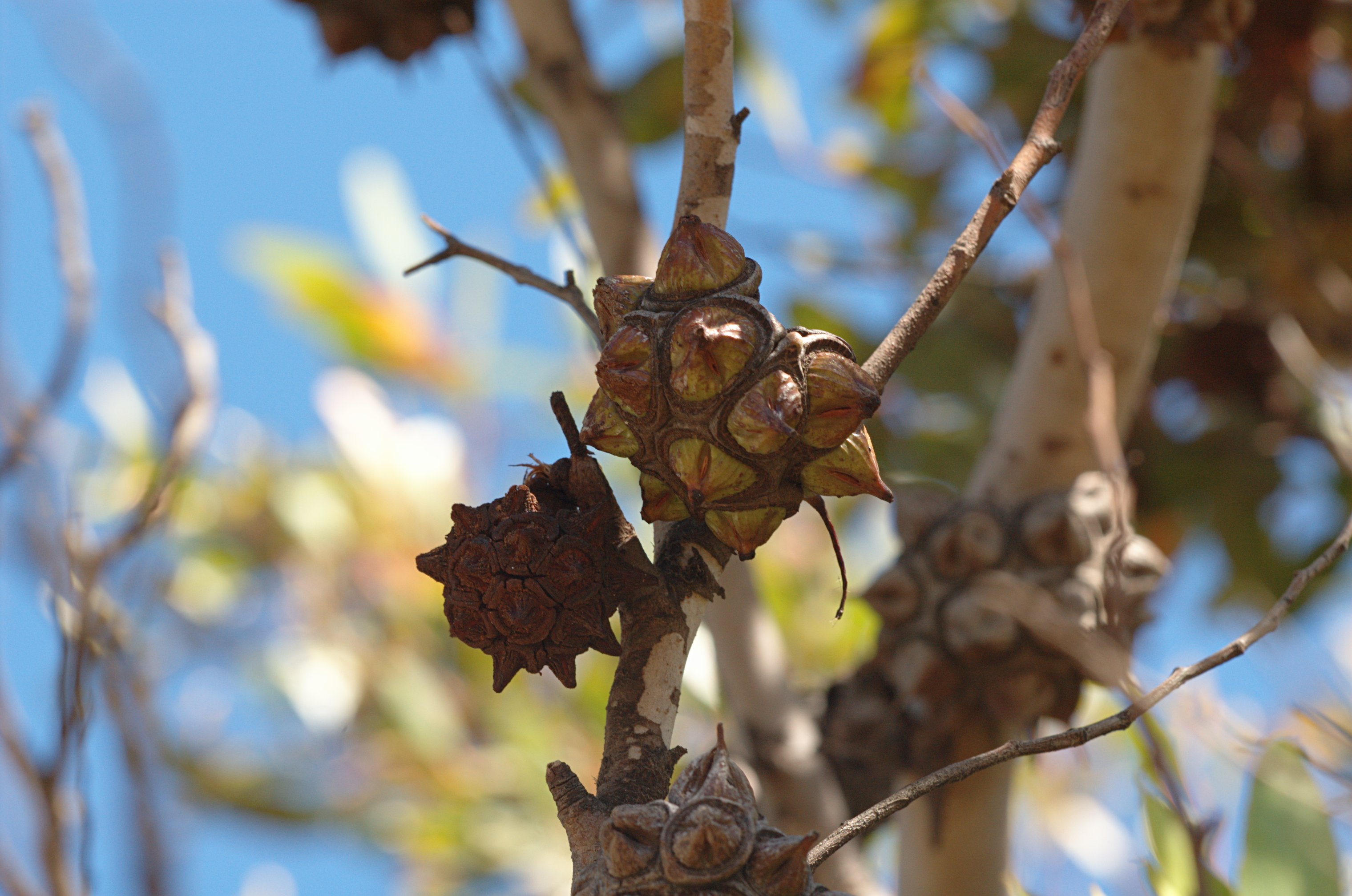 Probably Bald Island Marlock (Eucalyptus conferruminata), fruit clusters or gum nuts. East Devonport, Devonport, Tasmania, Australia.